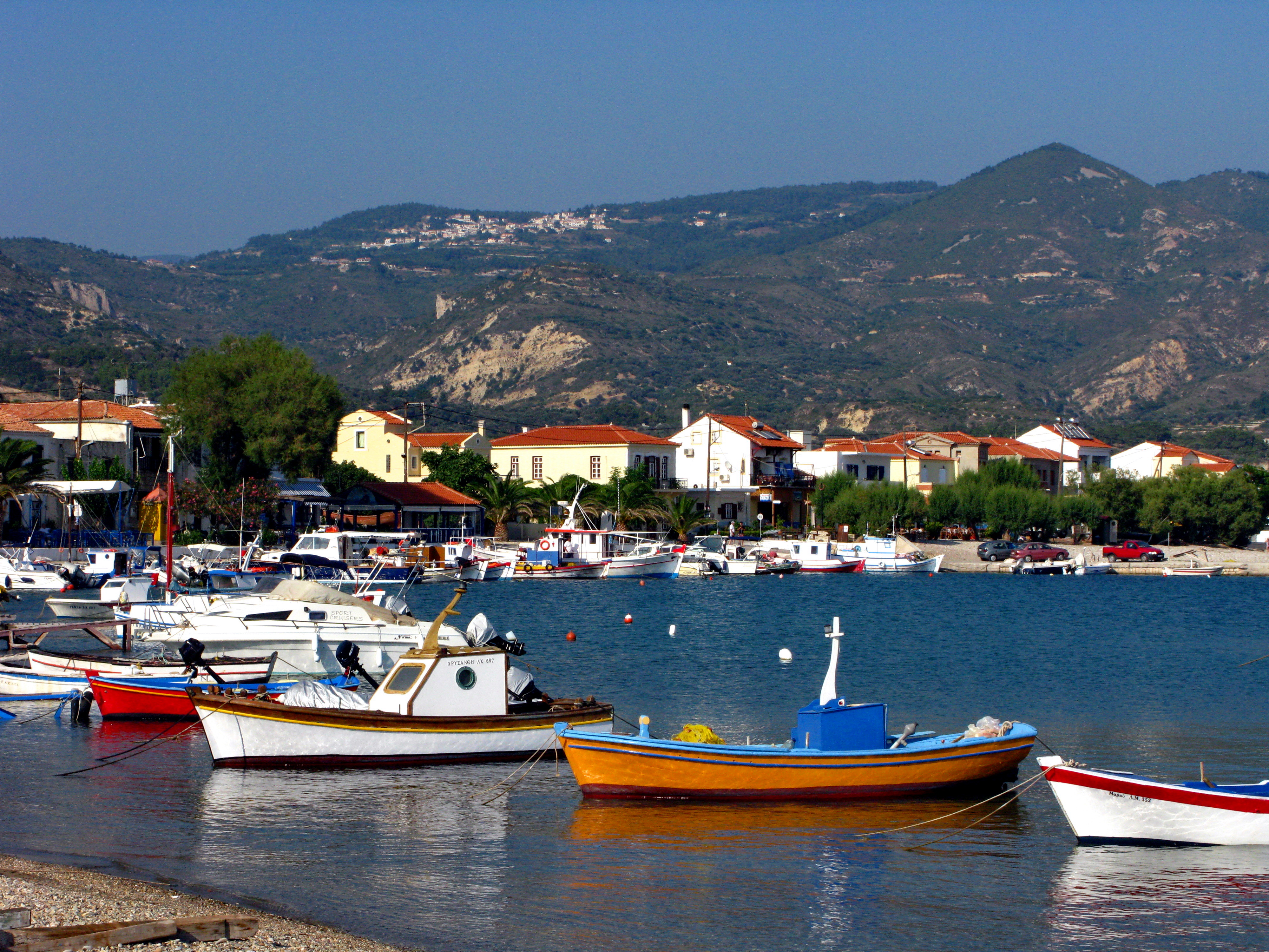 Isle of Samos. Ormos port 2010.